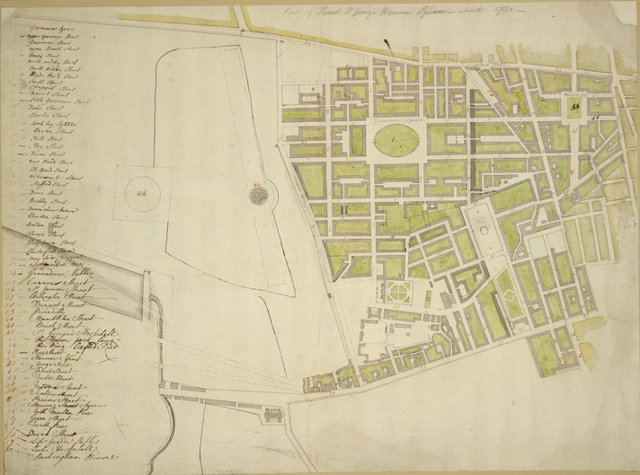 Parish of St George, Hanover Square, created in 1725, pen and ink on paper, British Library